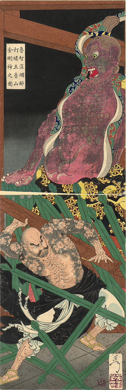 Lu Zhishen as he smashes a guardian statue at his temple while in a drunken rage.